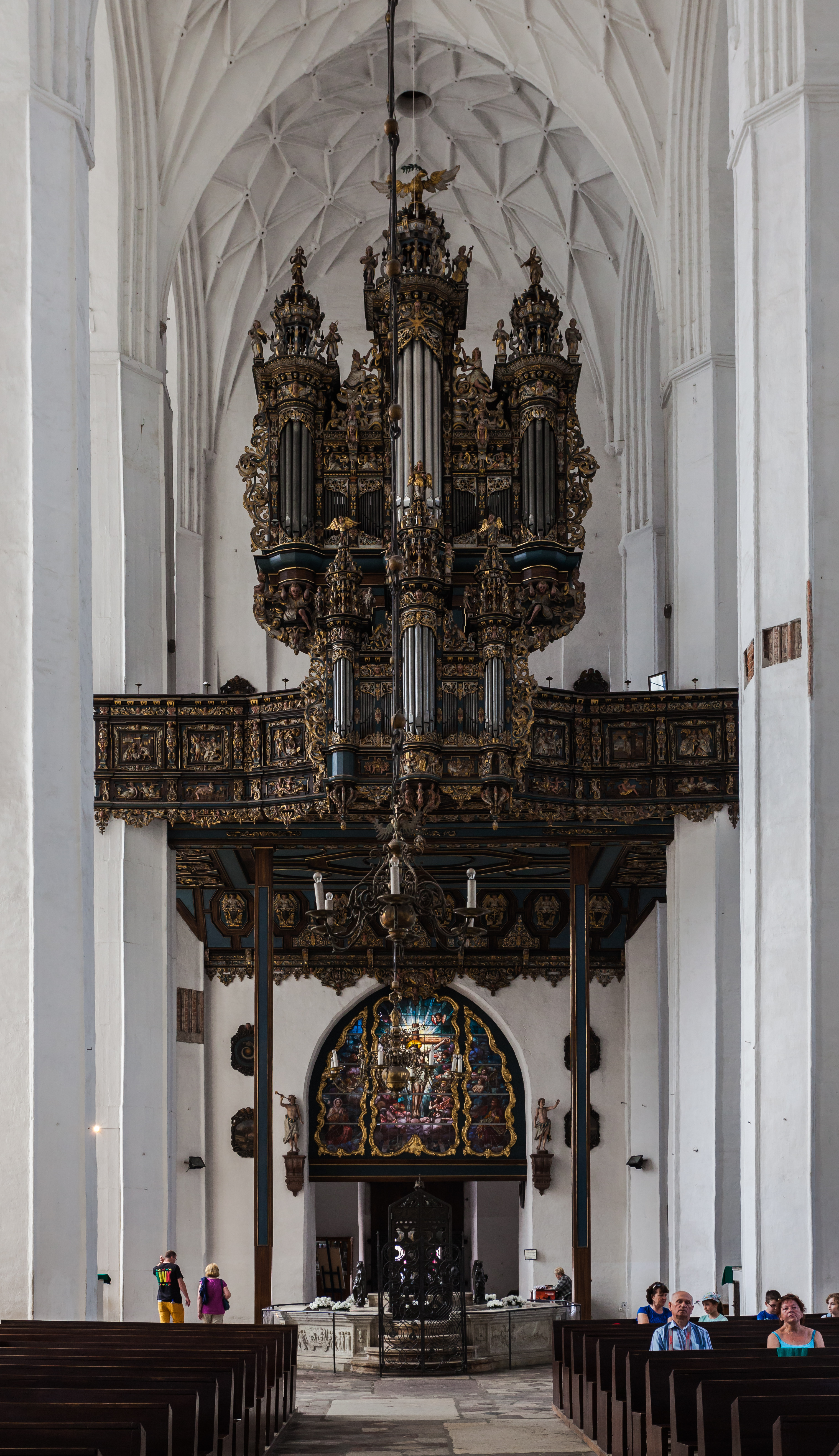 Church of St Mary, Gdansk, Poland